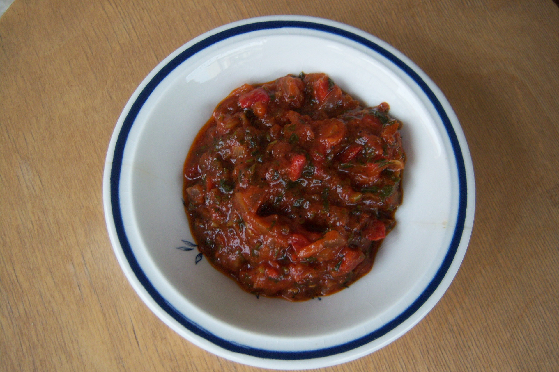 Turkish salad